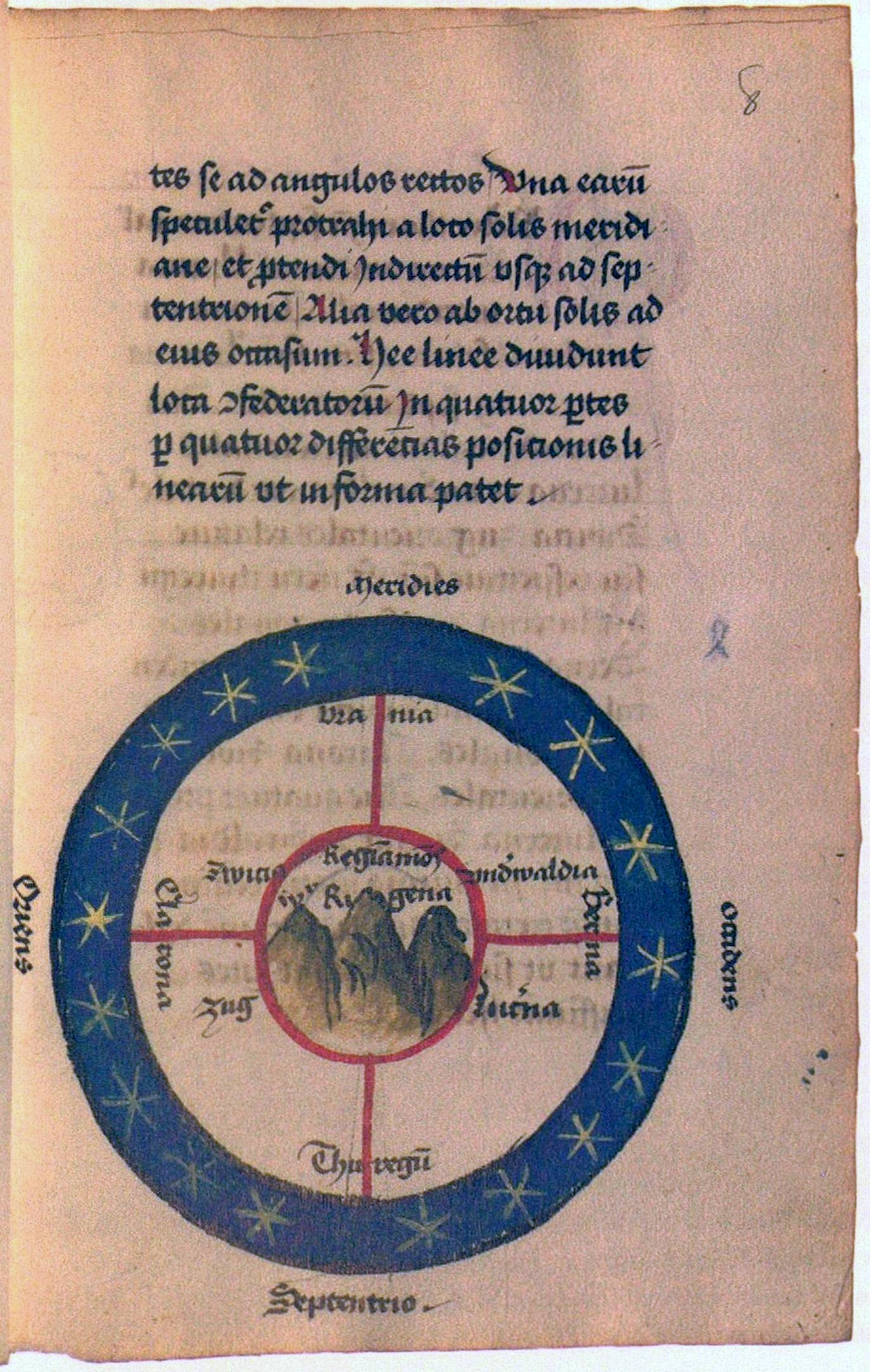 The oldest map of the Old Swiss Confederacy in the “Superioris Germaniae Confoederations Descriptio” (dedication copy for king Charles VIII of France). Manuscript: Paris, Bibliothèque nationale de France, Lat. 5656, fol. 8r.